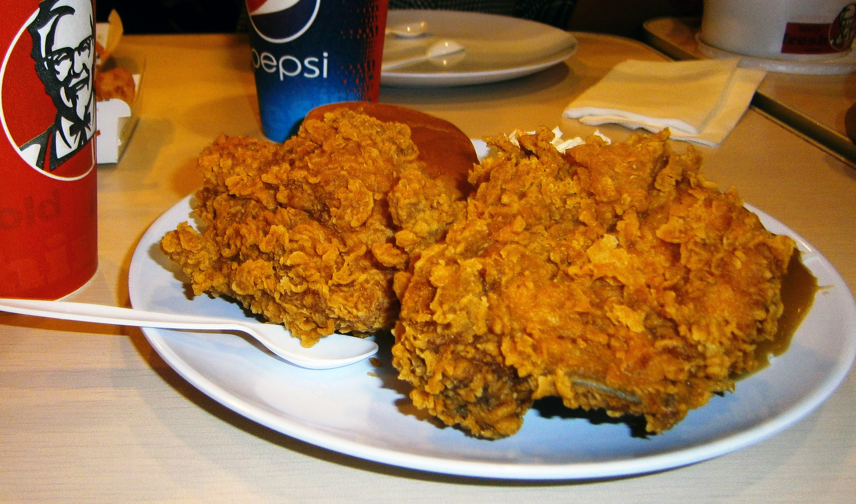 Kentucky Fried Chicken (Malaysia), Hot Wings™ fried chicken. Also pictured; KFC-branded Pepsi (left), KFC bun + coleslaw + mashed potato with gravy (on plate, back). Photo was taken in low lighting conditions.